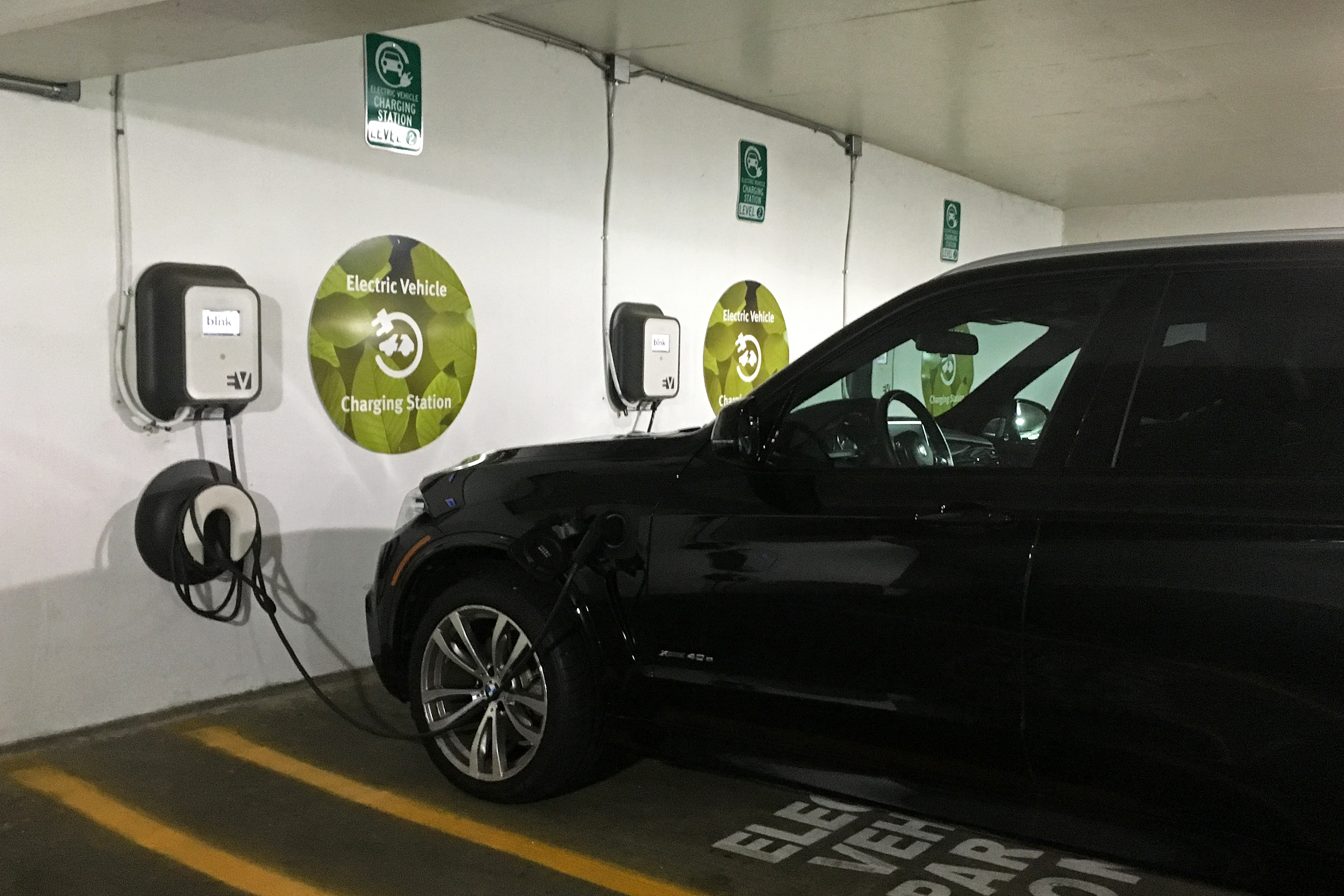 BMW X5 xDrive40e charging at a garage EV charging station at Fashion Centre at Pentagon City, Arlington, Virginia.